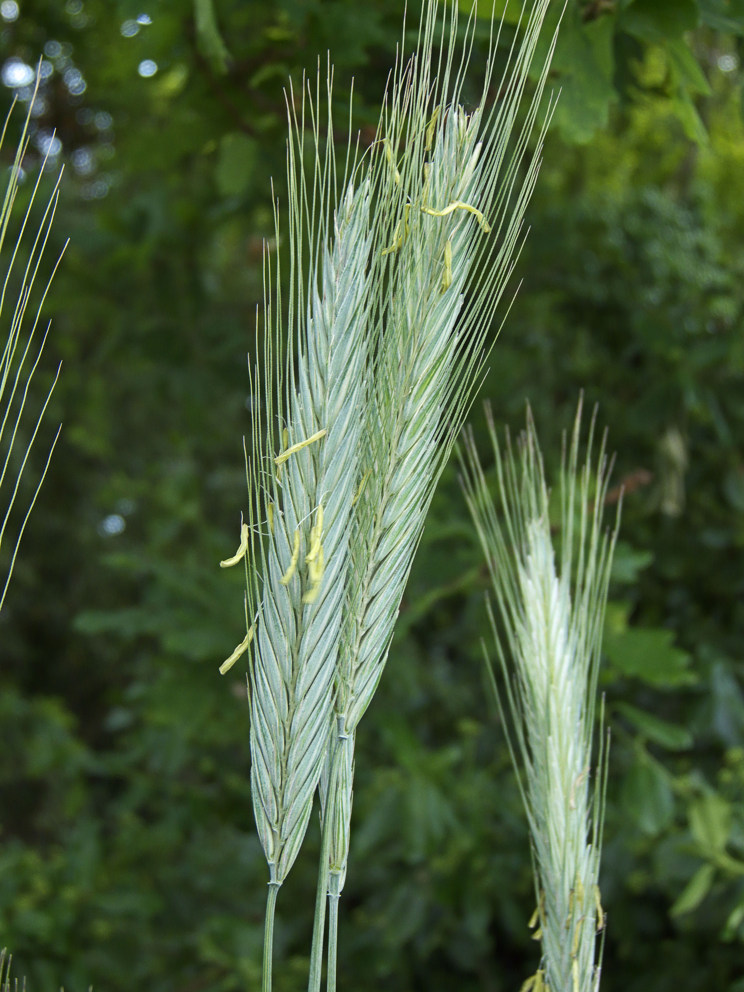 Secale_cereale_flowering